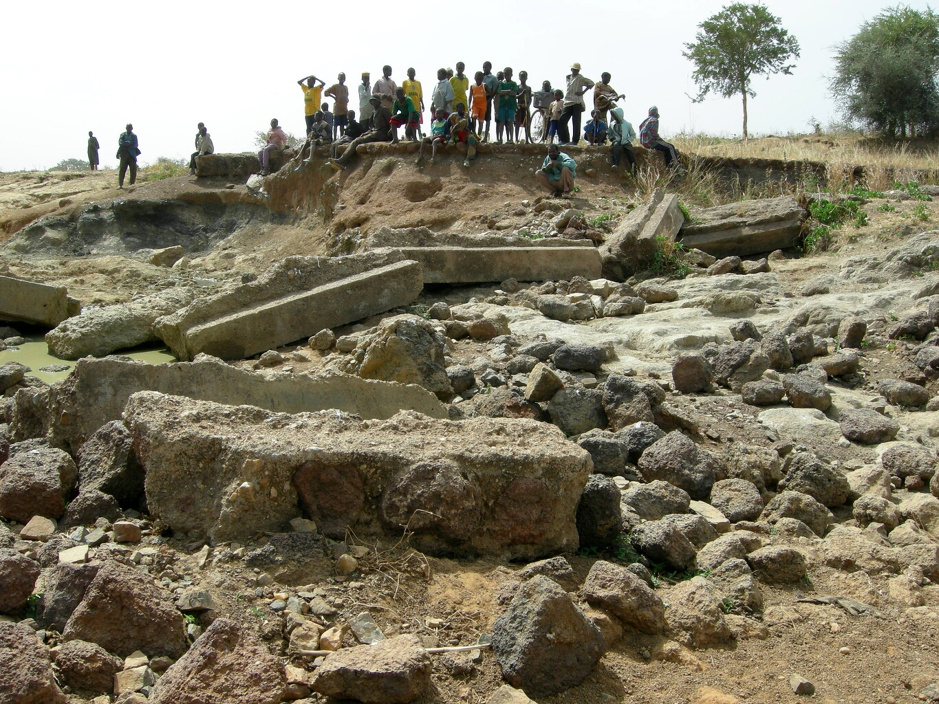 Burkina Faso: barrage in Dourtenga, destroyed by floodings in 2007.